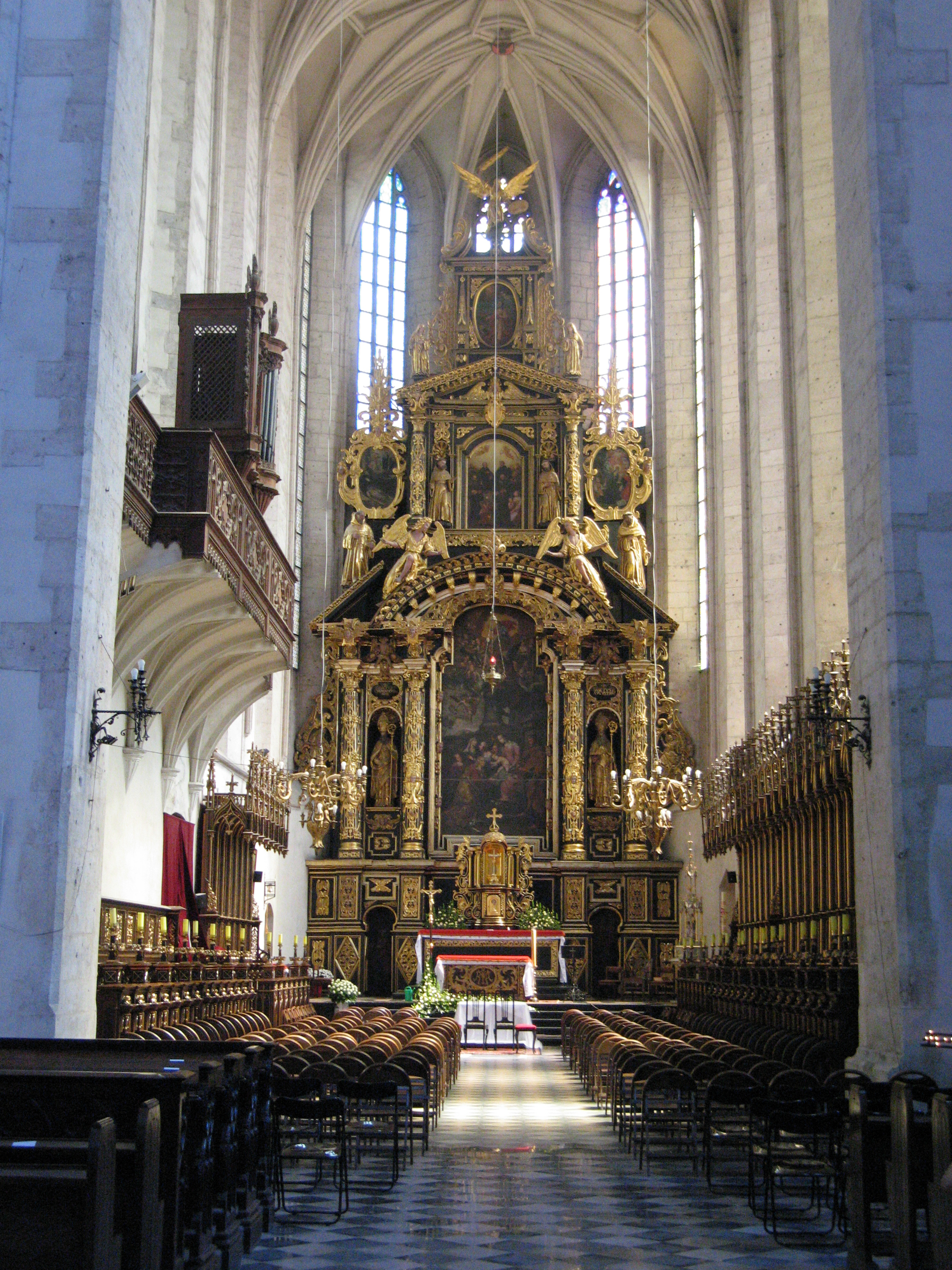 Church of St. Catherine in Kraków